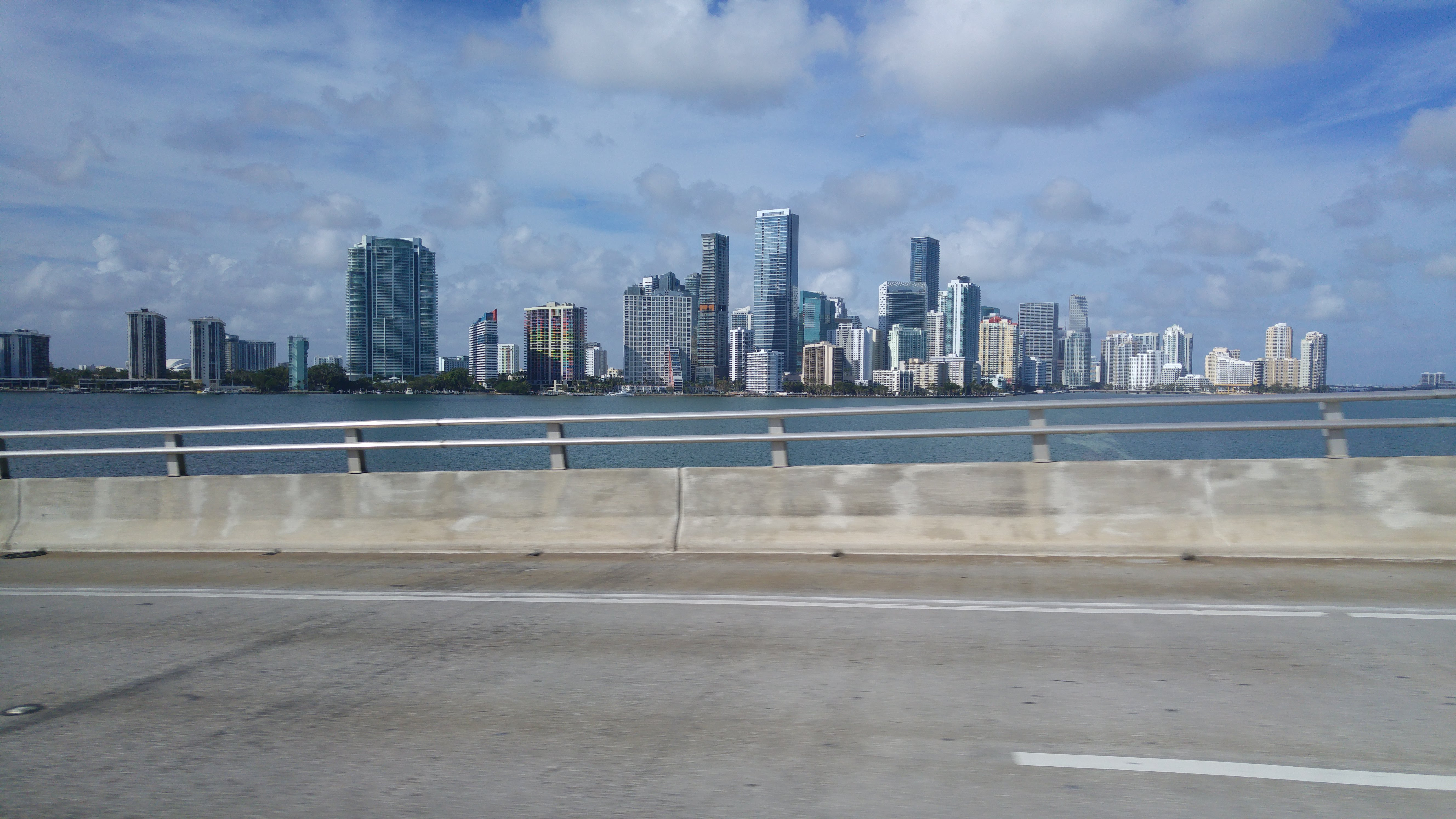 Miami skyline shoot from Willian M Powell bridge